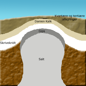 Formation of lime stone caves in Danish